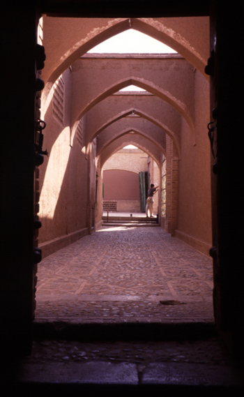 An example of a Kucheh, a traditional and significant part of urban design in Persia. Photo taken by user Zereshk.